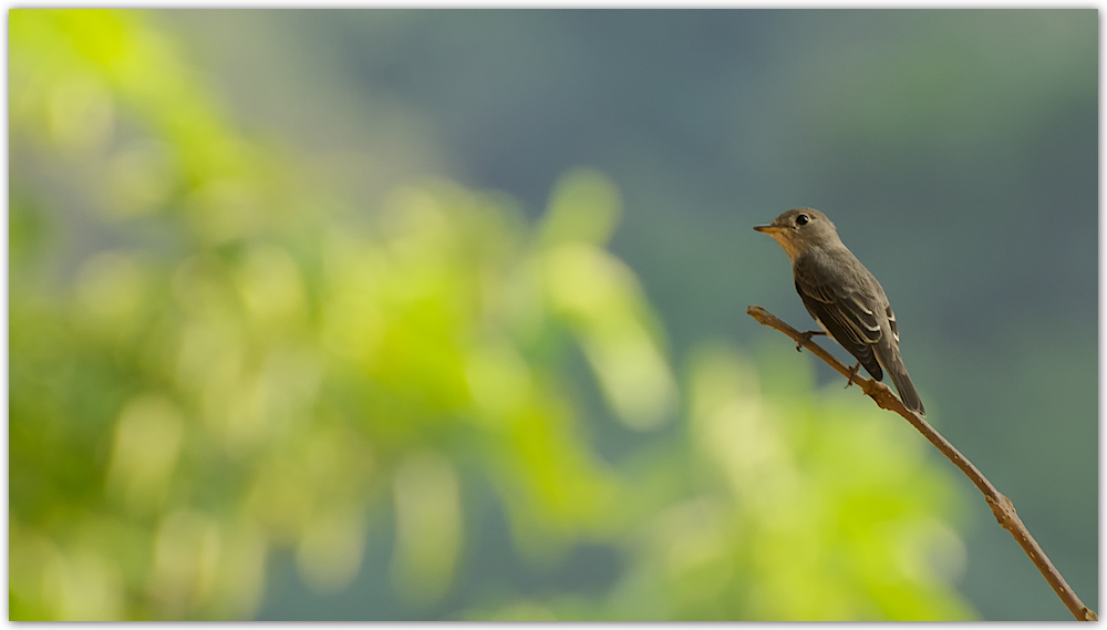 Asian Brown Flycatcher (Muscicapa dauurica) by Dharani Prakash